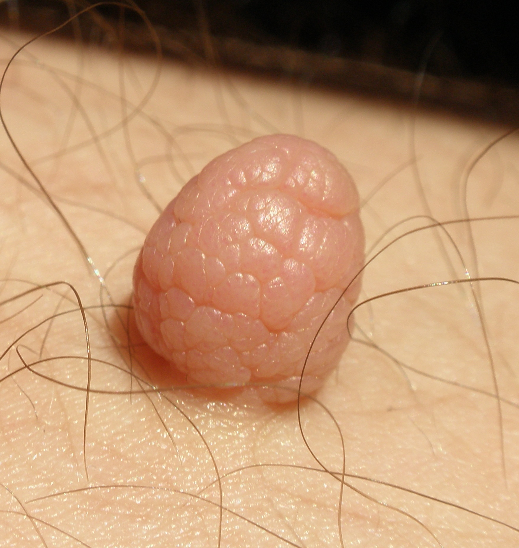 Soft fibroma on the thigh. About 8mm tall.